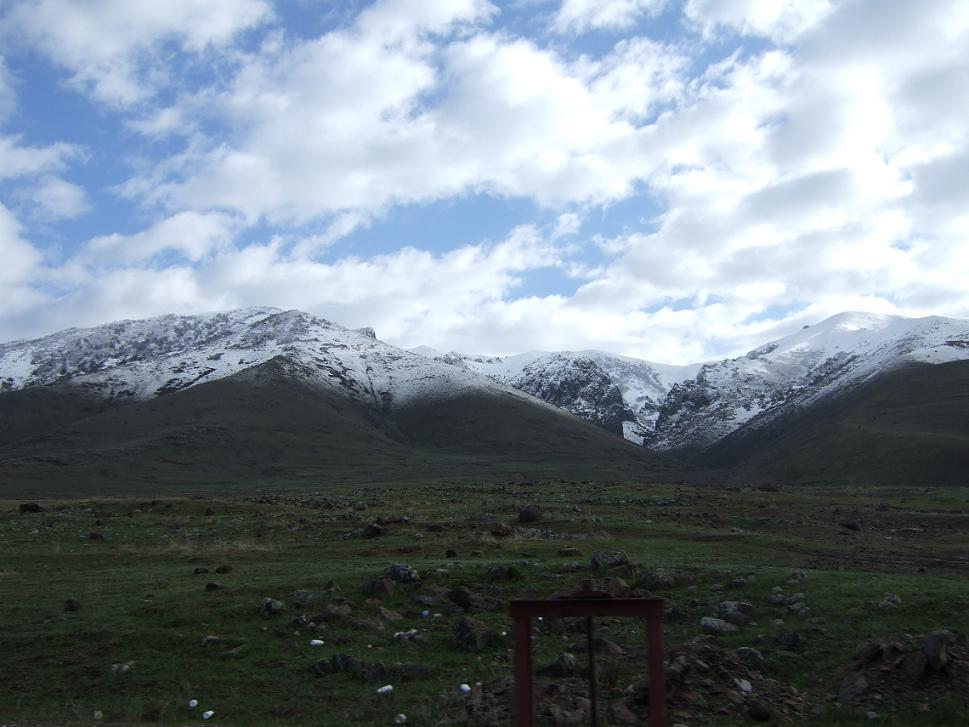 Arayi ler or Mount Ara, Aragatsotni marz, Armenia